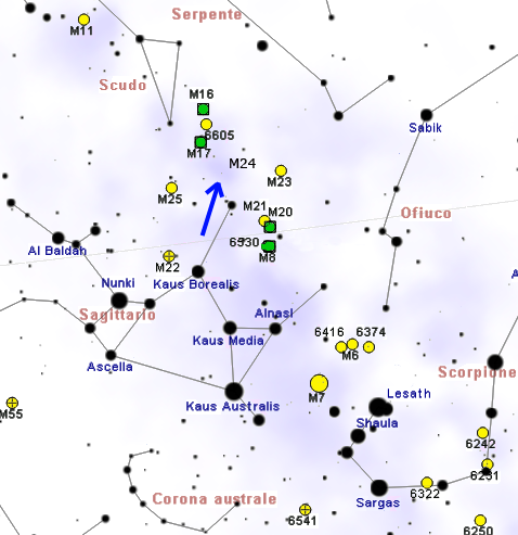 M24